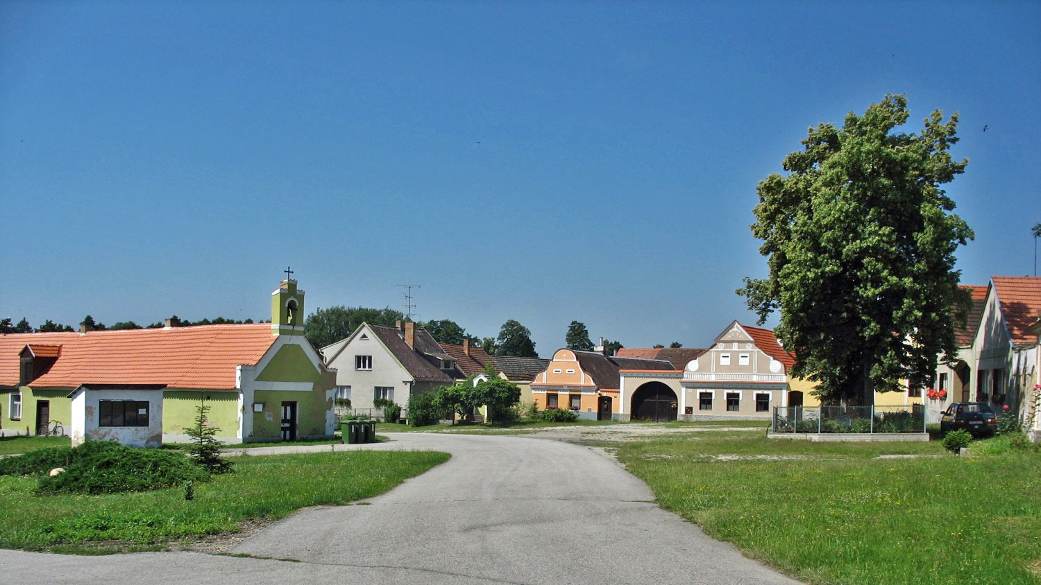 Zbudov, part of Dívčice municipality, České Budějovice District, Czech Republic